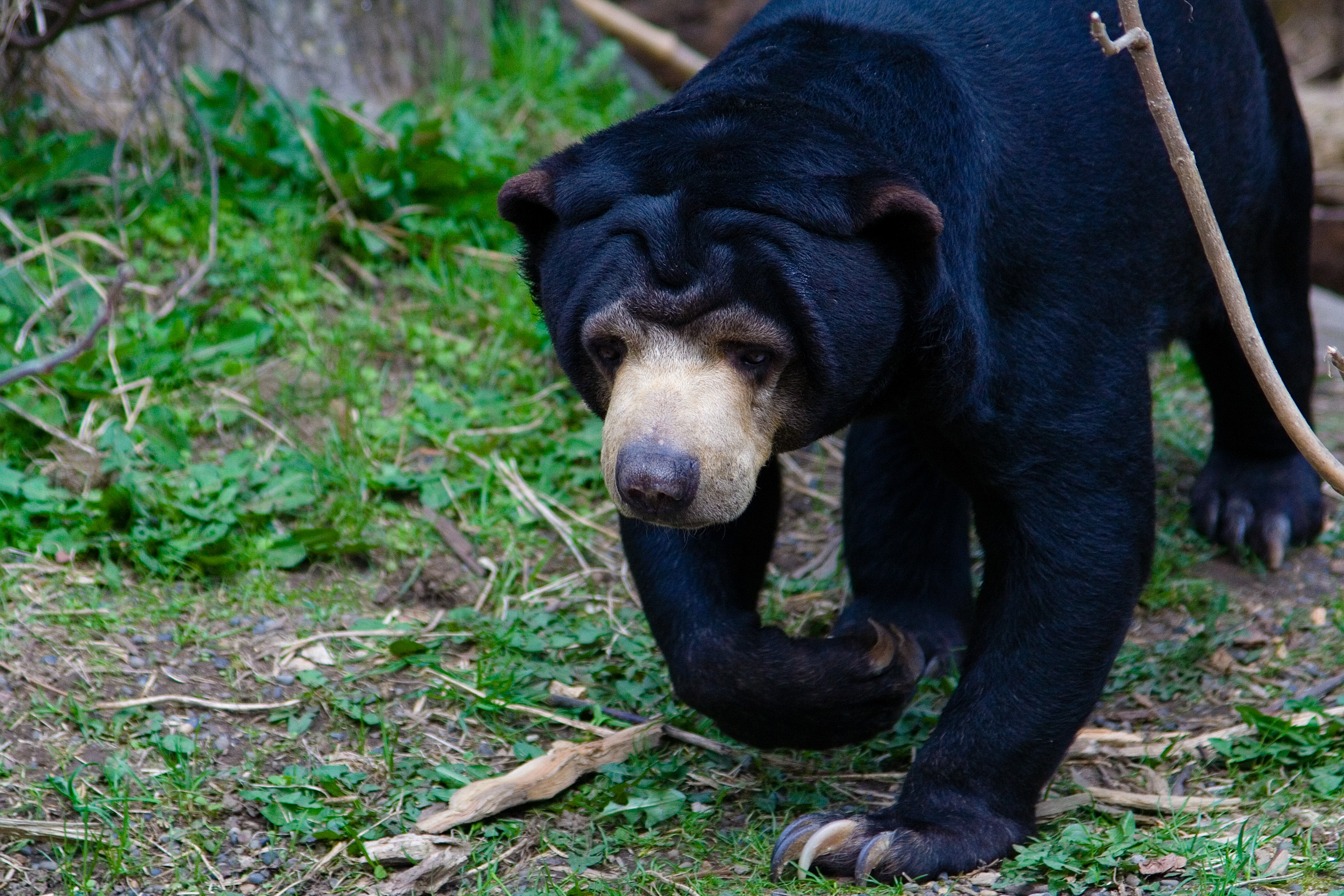 Malayan sun bear. Taken at the Oregon Zoo in Portland, OR.